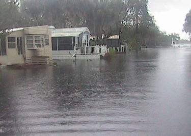 Flooding during Tropical Storm Isaac in 2012 at Ramblers Mobile Home Park in rural Sarasota County, Florida